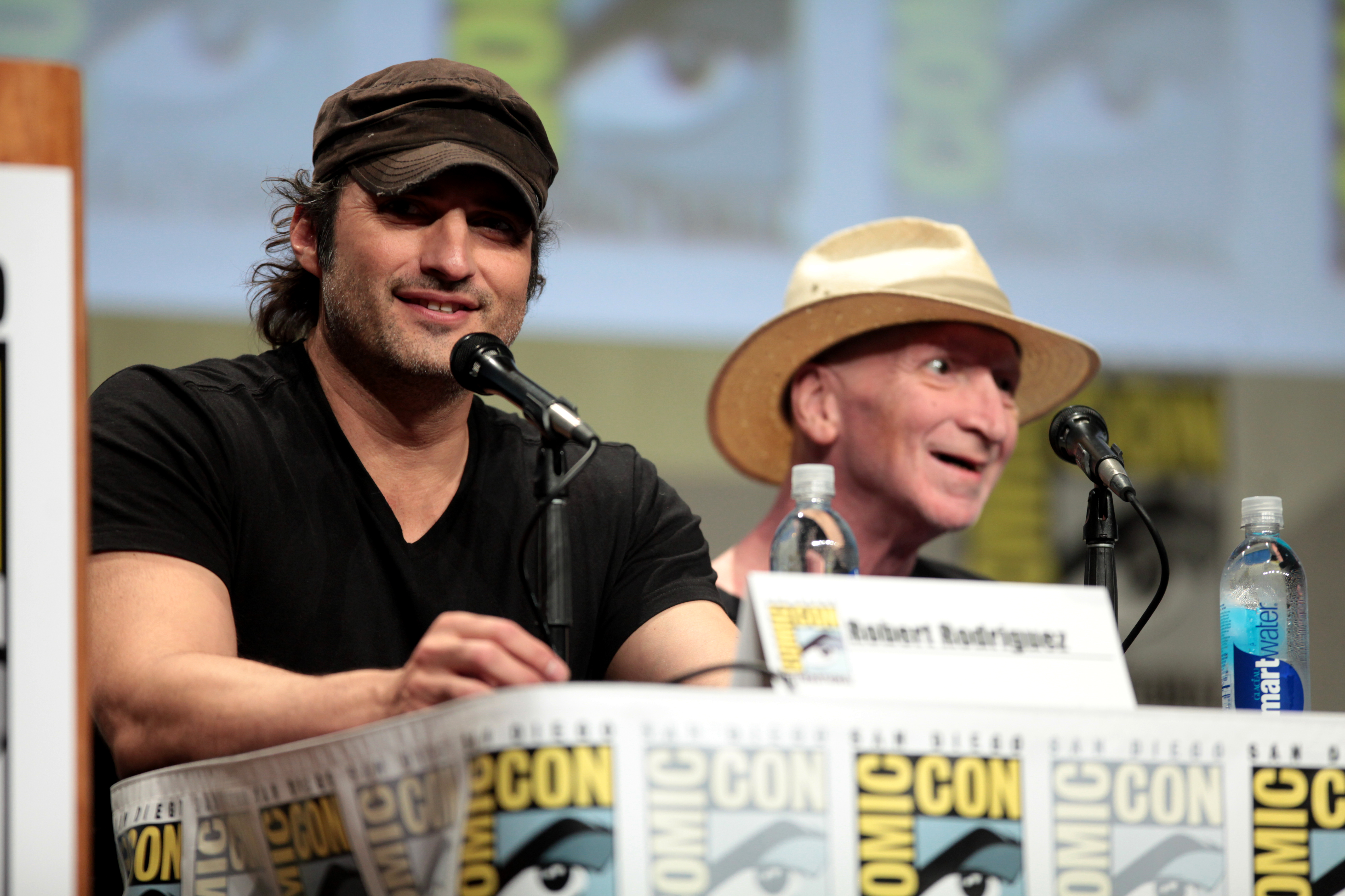 Robert Rodriguez and Frank Miller speaking at the 2014 San Diego Comic Con International, for "Frank Miller's Sin City: A Dame to Kill For", at the San Diego Convention Center in San Diego, California.